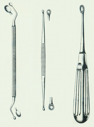 sharp scoop // sharp spoon